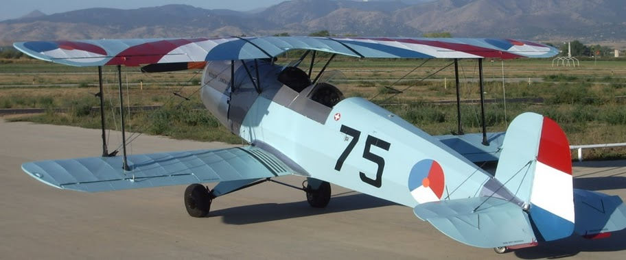 CASA 1.131 Bücker Jungmann in the colors of the Luchtvaart Afdeeling. Photo taken 2007 Colorado USA.